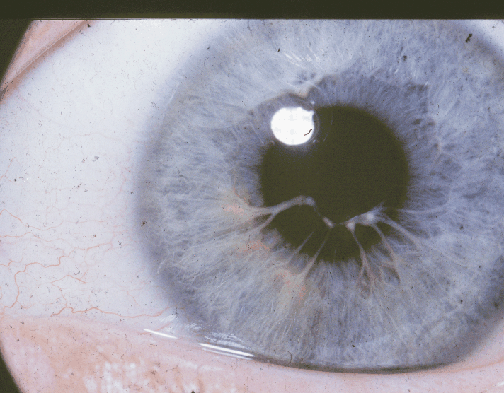 The patient was a seven-year-old male who was brought to the hospital because of a blow to the left eye. The patient's father had noticed a peculiar iris adhesion. An examination showed congenital pupillary remnants attached to the lens